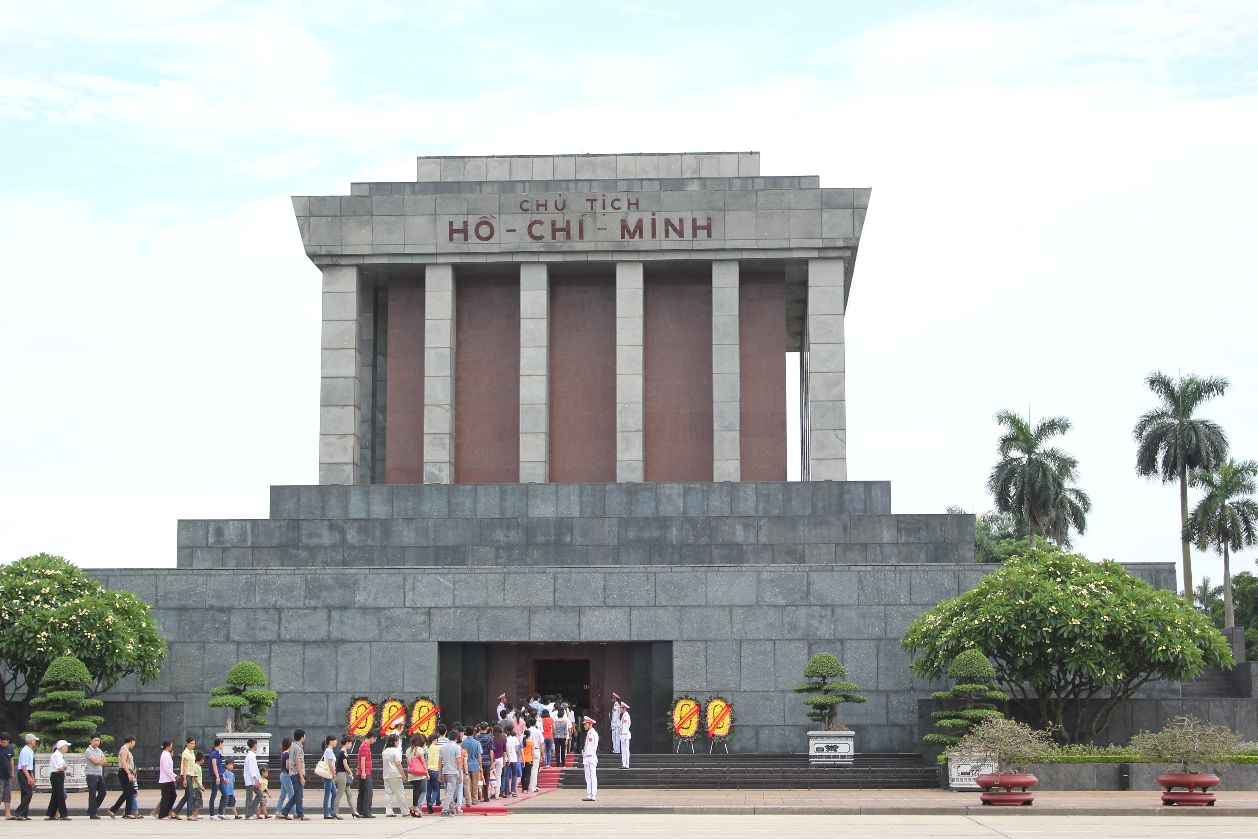 Ho Chi Minh Mausoleum.